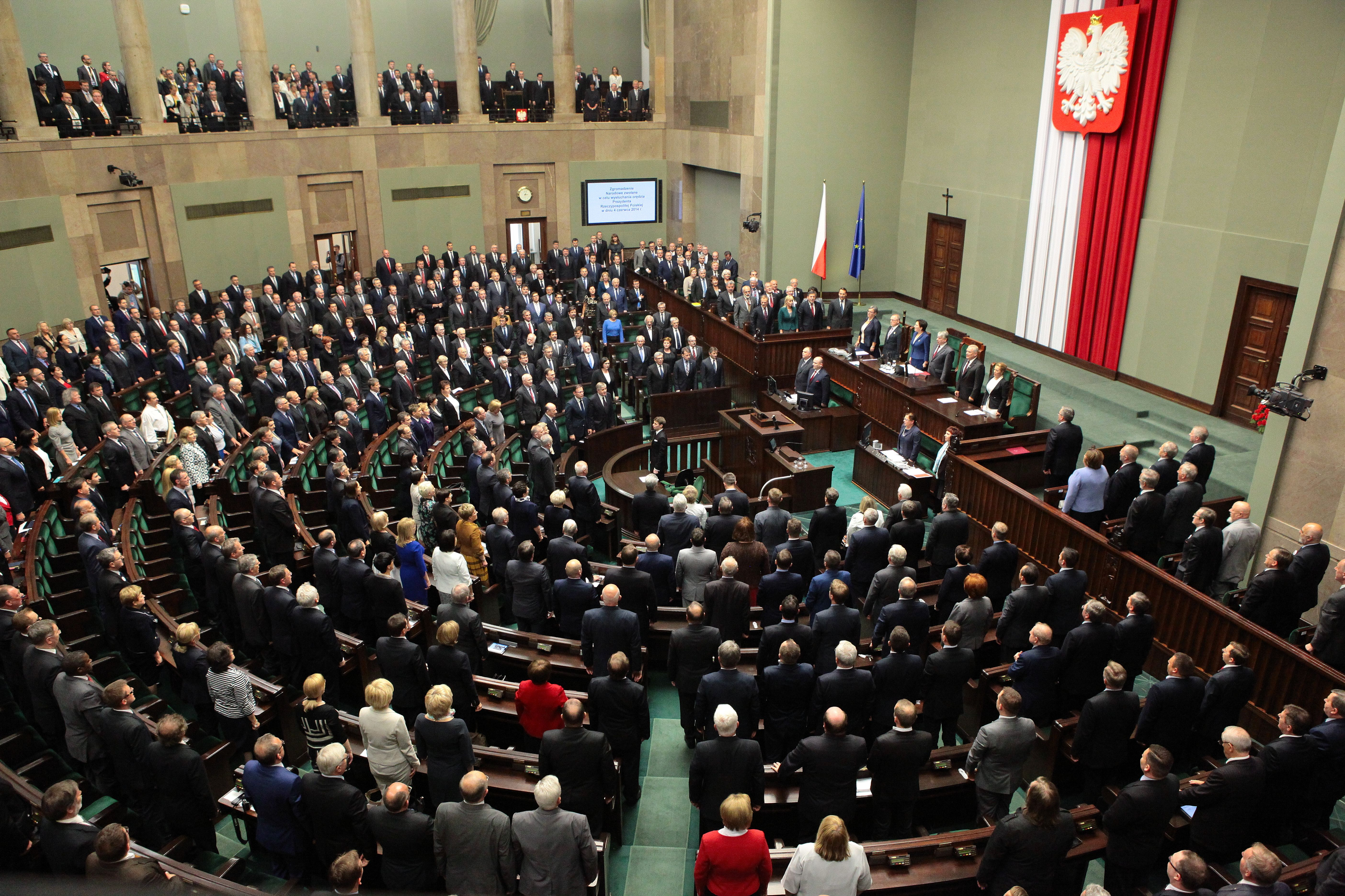 A National Assembly sitting on June 4th 2014